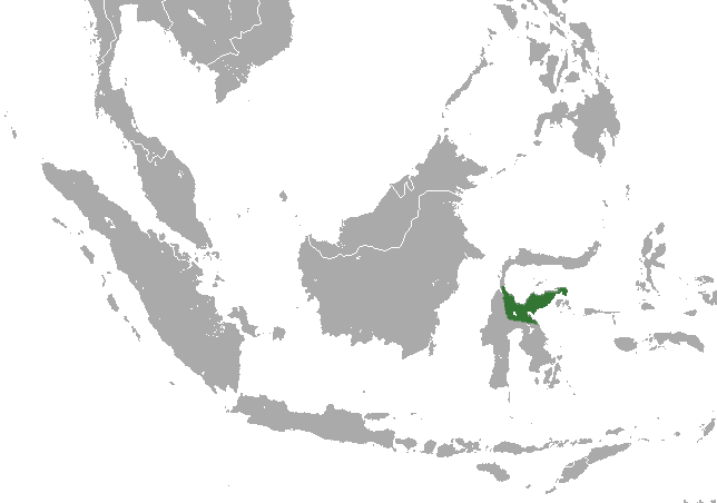 Dian's Tarsier (Tarsius dentatus) range